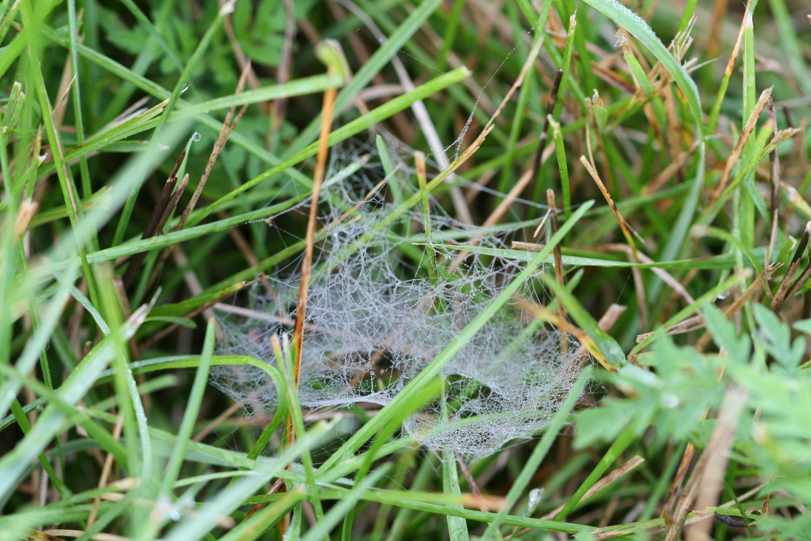 The web of Florinda coccinea, showing the capture sheet and the prey-intercepting tangle lines above.